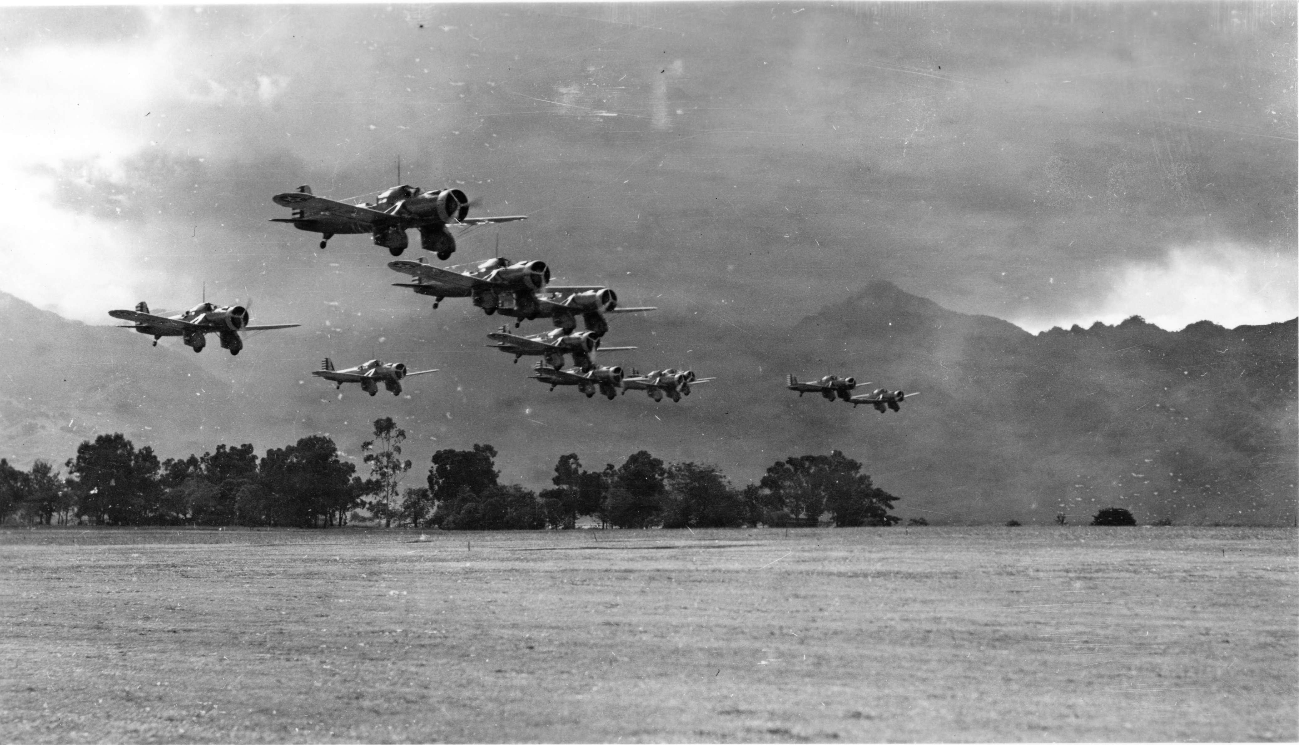 Photograph of Eleven Curtiss A-12 Shrike Aircraft in Formation near Wheeler Field, Oahu, Hawaii taken in 1940.